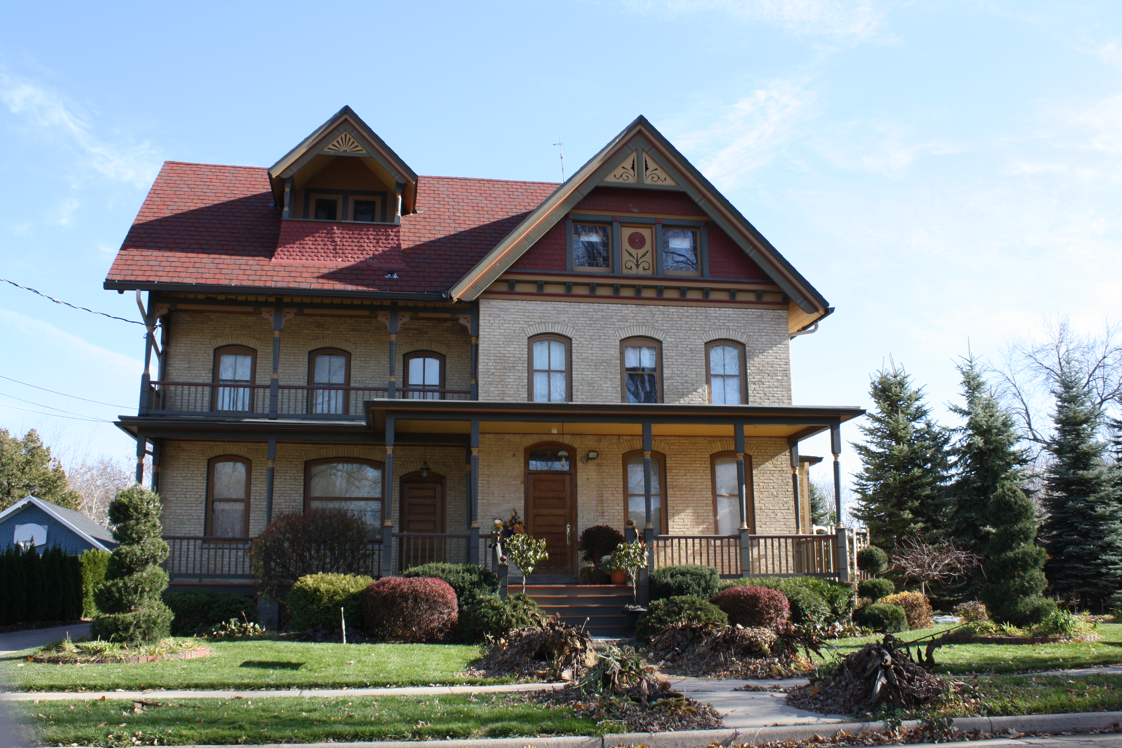 The Charles R. Smith House in Menasha, Wisconsin, listed on the National Register of Historic Places.